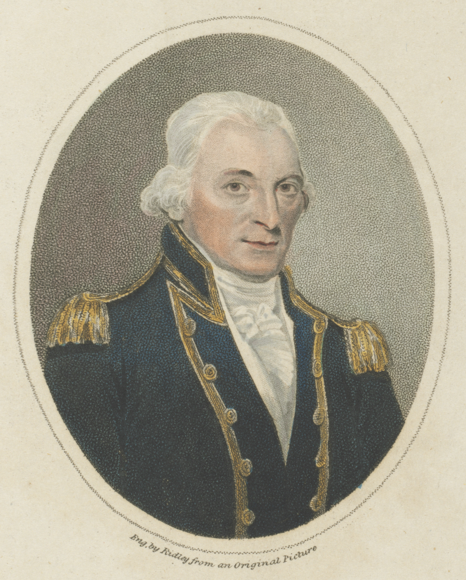 Captain John Hunter, Governor of New South Wales, 1801, engraved by Ridley, published by Bunny and Gold, Shoe Lane, State Library of New South Wales, DL PX 157 09